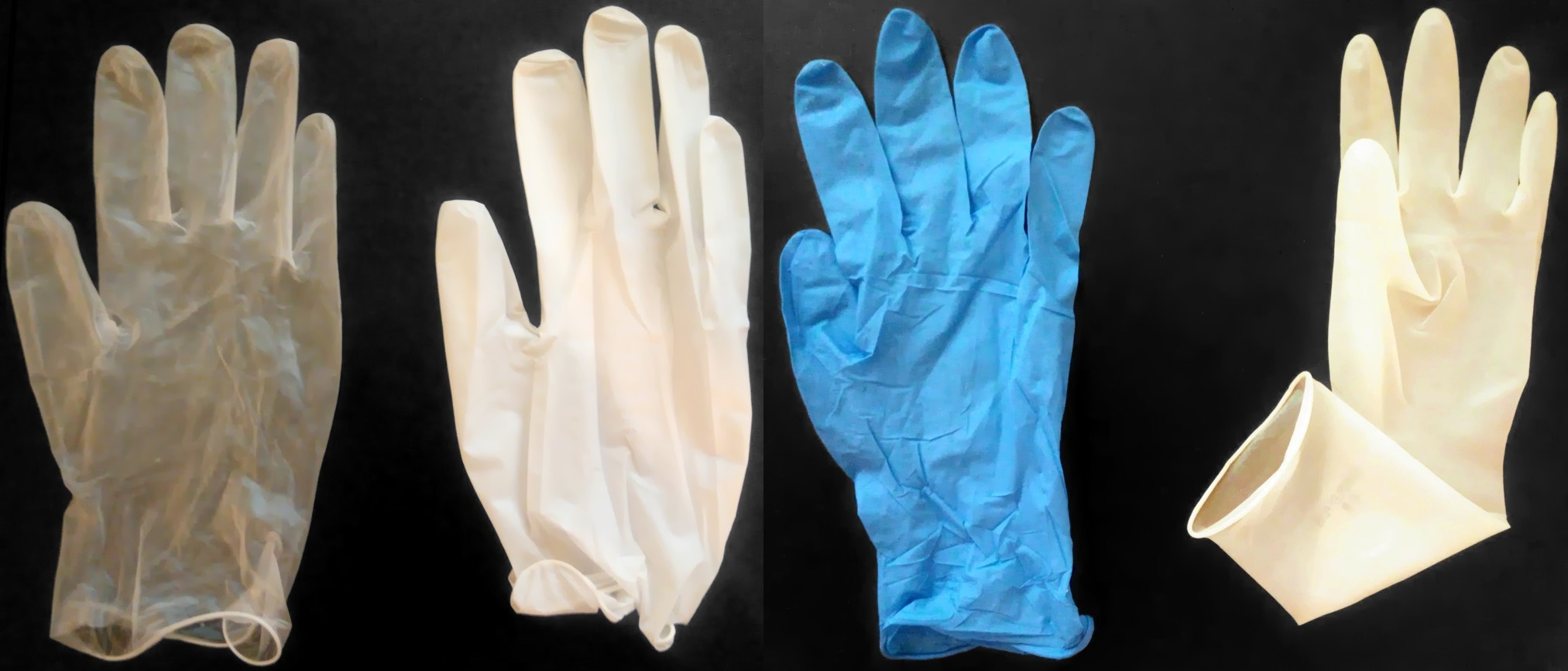 Hospital gloves of various materials, from left to right from the least elastic to the elastic, Vinyl, Elastic Vinyl, Nitrile and Latex.